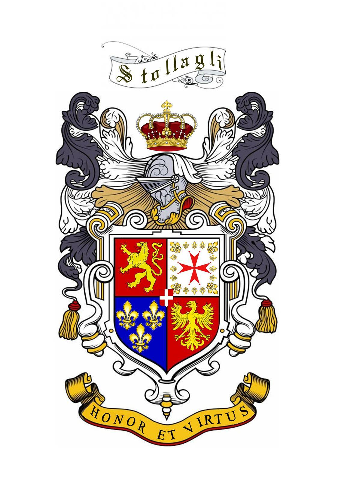 Stollagli Coat of arms